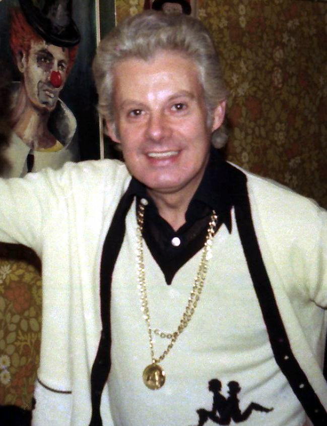 Danny La Rue, as released by image creator Lars Jacob ProdPlace: Prince of Wales Theatre, 31 Coventry Street, London, England, U.K.